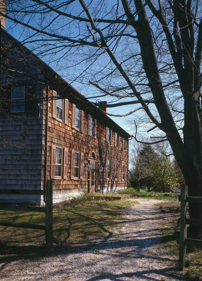 Dr. John R. Sudler House, North Main Street, Bridgeville (Sussex County, Delaware) cropped This file comes from the Historic American Buildings Survey (HABS), Historic American Engineering Record (HAER) or Historic American Landscapes Survey (HALS). These are programs of the National Park Service established for the purpose of documenting historic places. Records consist of measured drawings, archival photographs, and written reports. When reusing please credit: Library of Congress, Prints & Photographs Division, DE-1-184-12 This tag does not indicate the copyright status of the attached work. A normal copyright tag is still required. See Commons:Licensing. This work is in the public domain in the United States because it is a work prepared by an officer or employee of the United States Government as part of that person’s official duties under the terms of Title 17, Chapter 1, Section 105 of the US Code. Note: This only applies to original works of the Federal Government and not to the work of any individual U.S. state, territory, commonwealth, county, municipality, or any other subdivision. This template also does not apply to postage stamp designs published by the United States Postal Service since 1978. (See § 313.6(C)(1) of Compendium of U.S. Copyright Office Practices). It also does not apply to certain US coins; see The US Mint Terms of Use. This file has been identified as being free of known restrictions under copyright law, including all related and neighboring rights. Object location38° 44′ 50″ N, 75° 35′ 58″ W